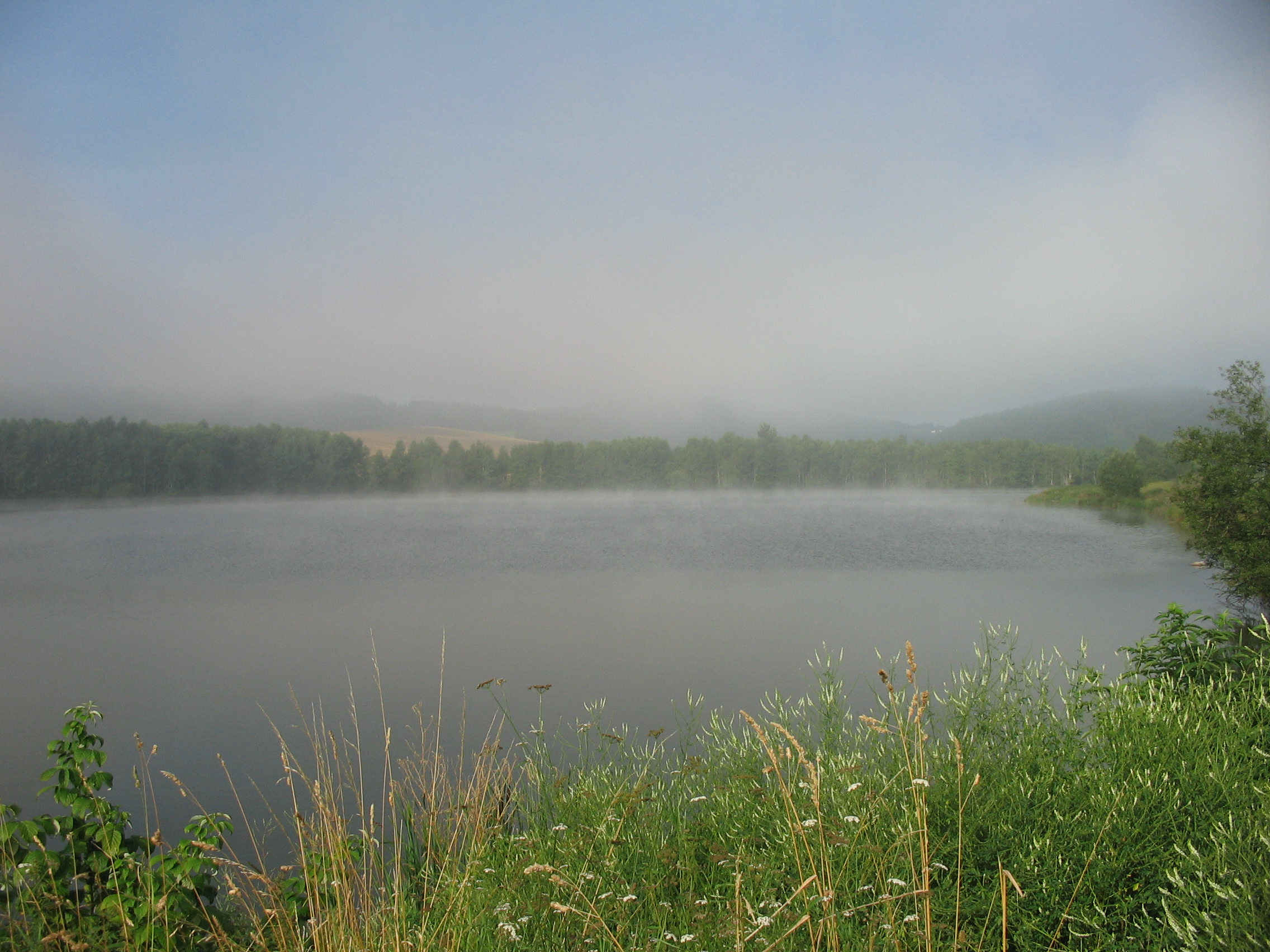 Pond near Dražovice, Klatovy District, Czech Republic